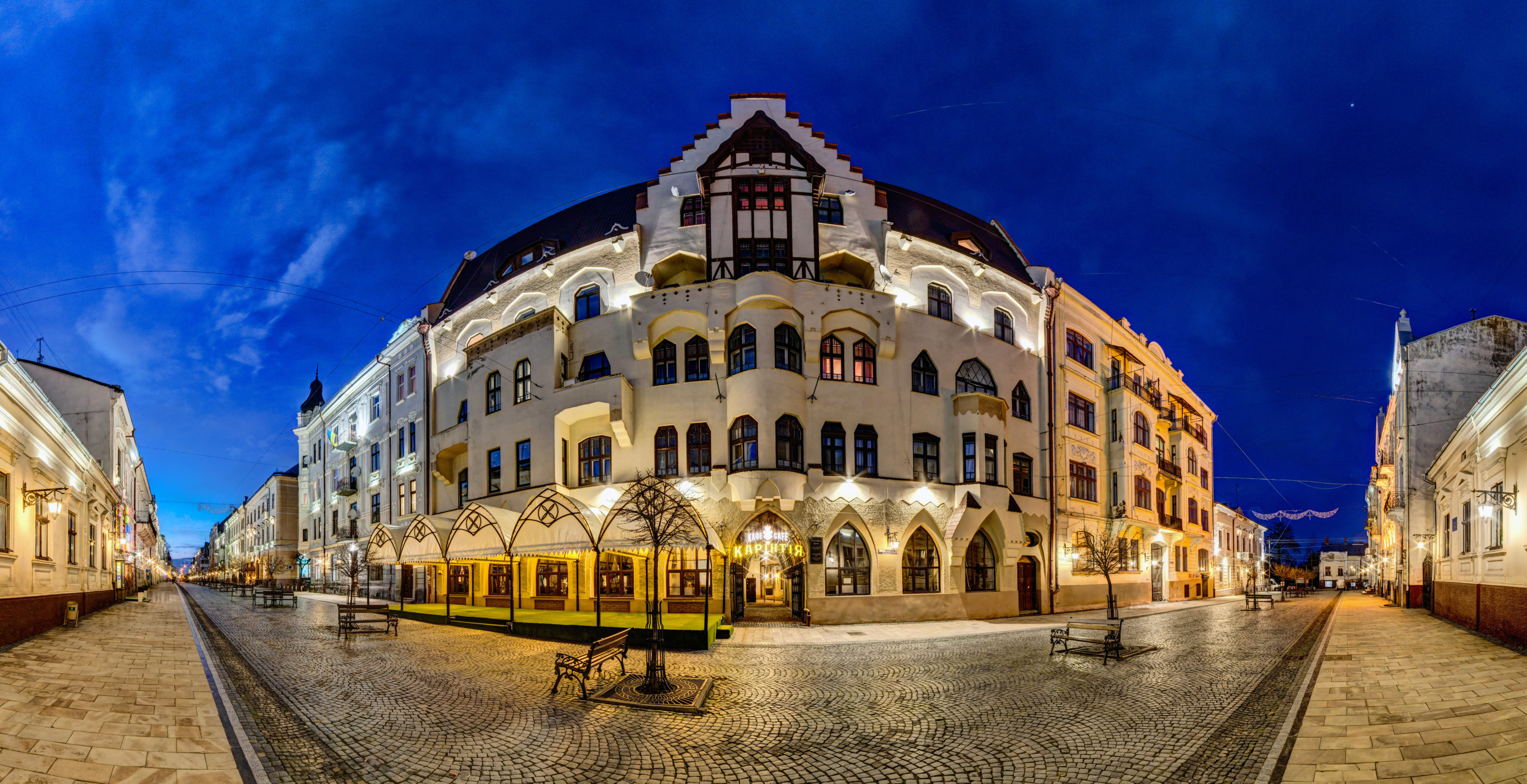 German People House in Chernivtsi, the beginning of the XX century, architect: Gustav Fritsch, engineer: Erwin Müller (architectural monument of local significance) — panorama 180°. Chernivtsi, 53 Olga Kobylianska St.